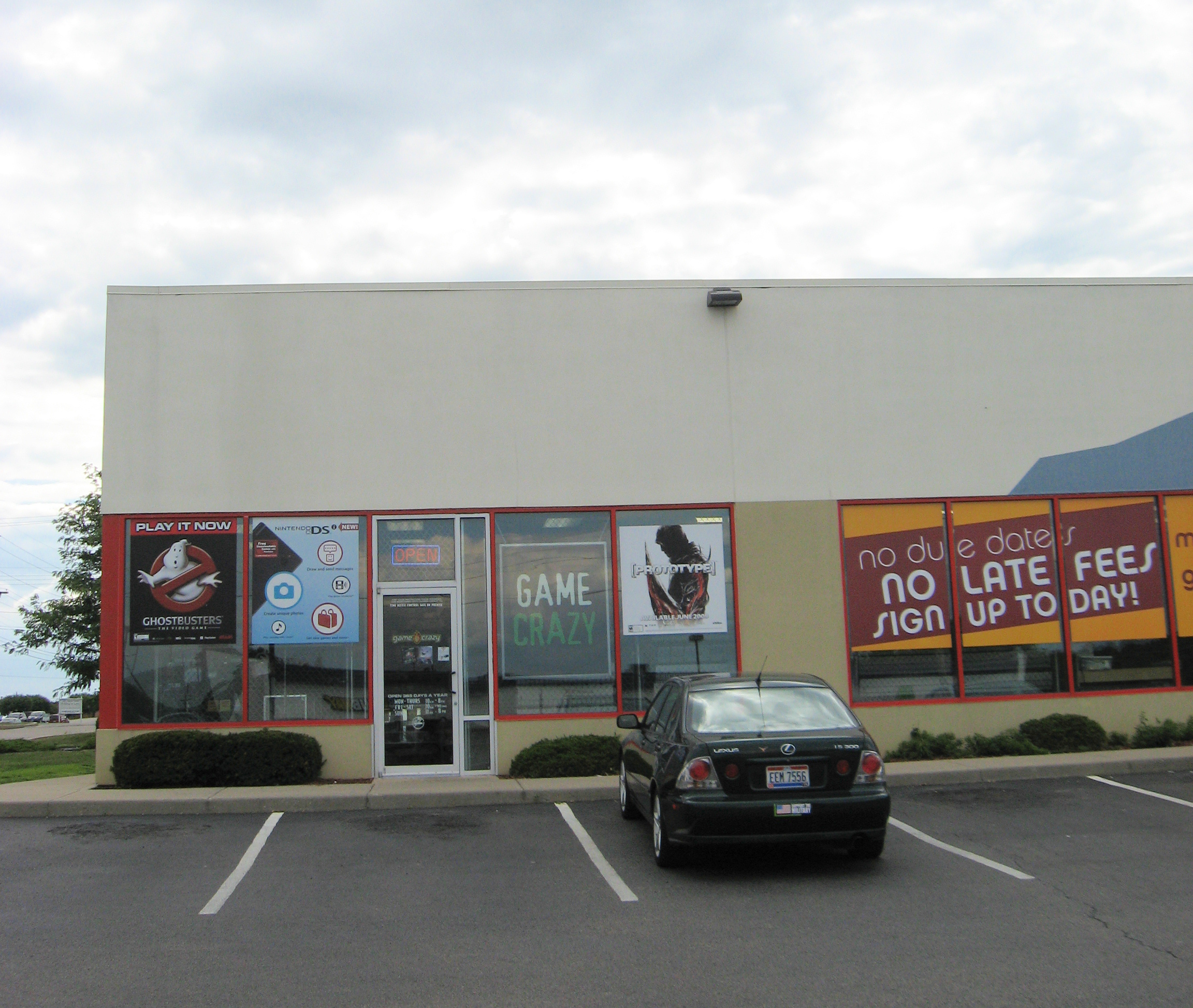 Game Crazy location (Springboro, Ohio, USA)